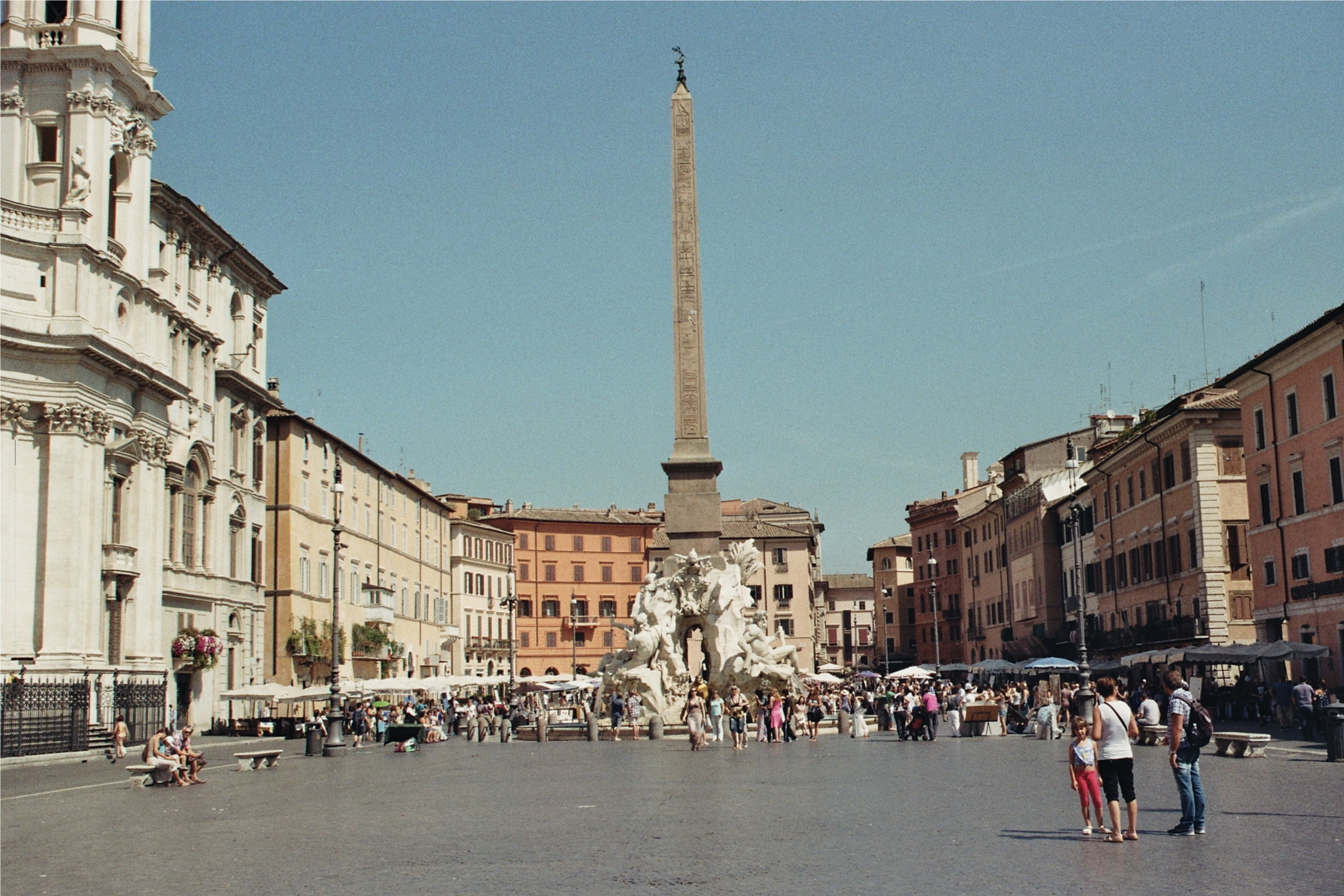 Piazza Navona, Rome